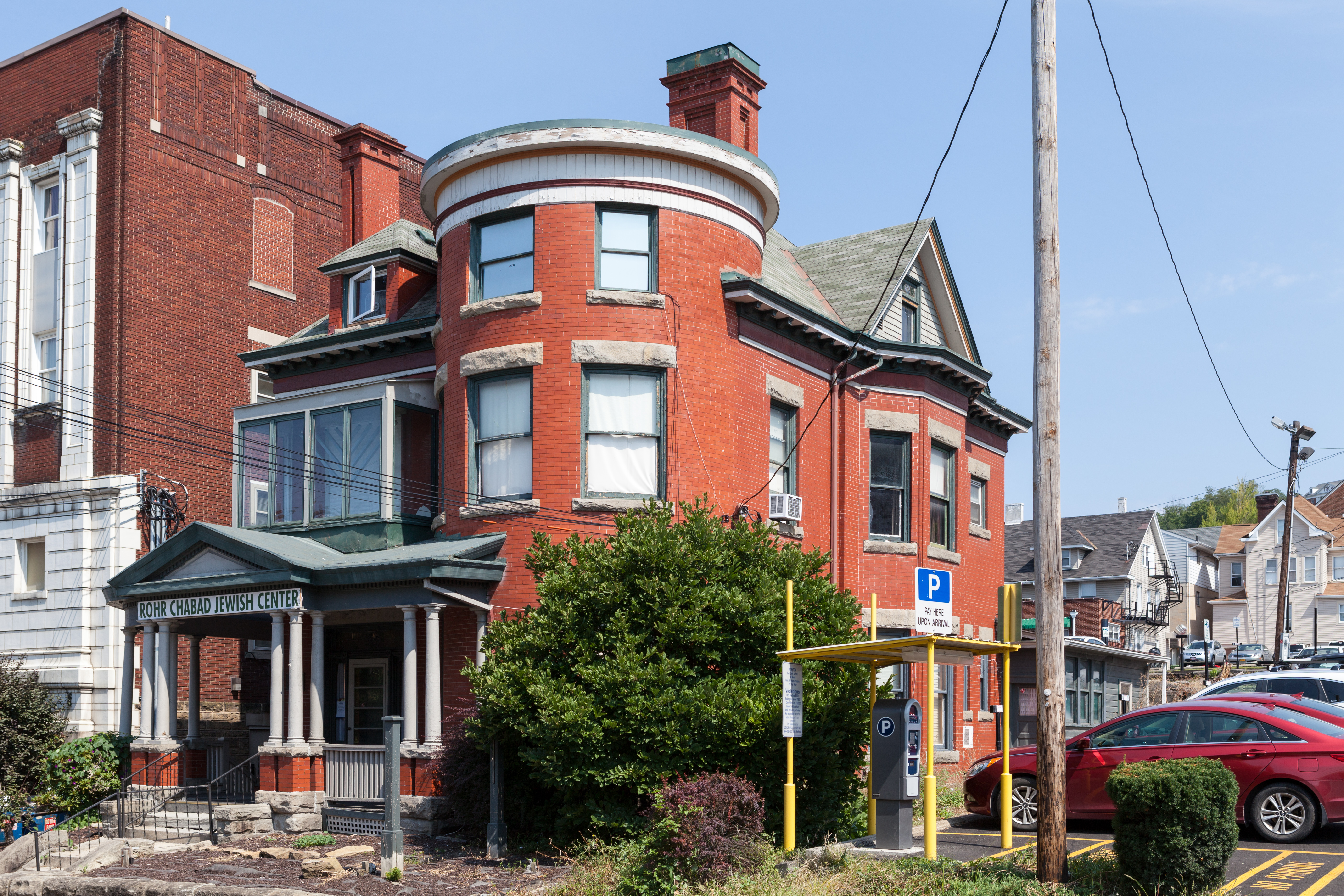 Walters House, a historic home located at 221 Willey Street in Morgantown, West Virginia. It is now the Chabad Jewish Center at West Virginia University. The south corner.